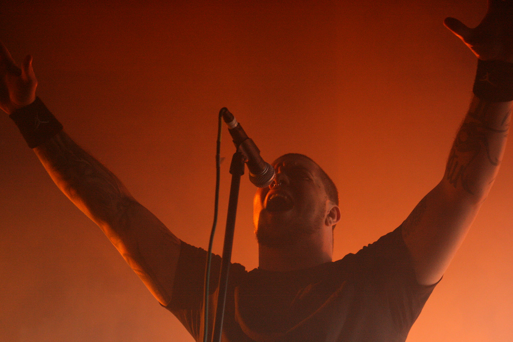 Mark Hunter live with Chimaira at the Nokia Theatre on June 25, 2008.